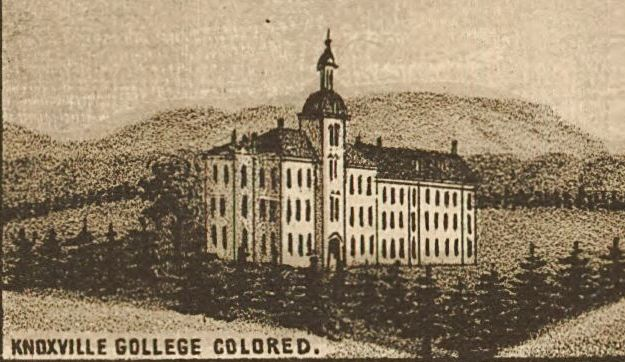 Knoxville College, as it appeared on an 1886 map of Knoxville, Tennessee, USA. Cropped from a map entitled, "Knoxville, Tennessee, County Seat of Knox County."